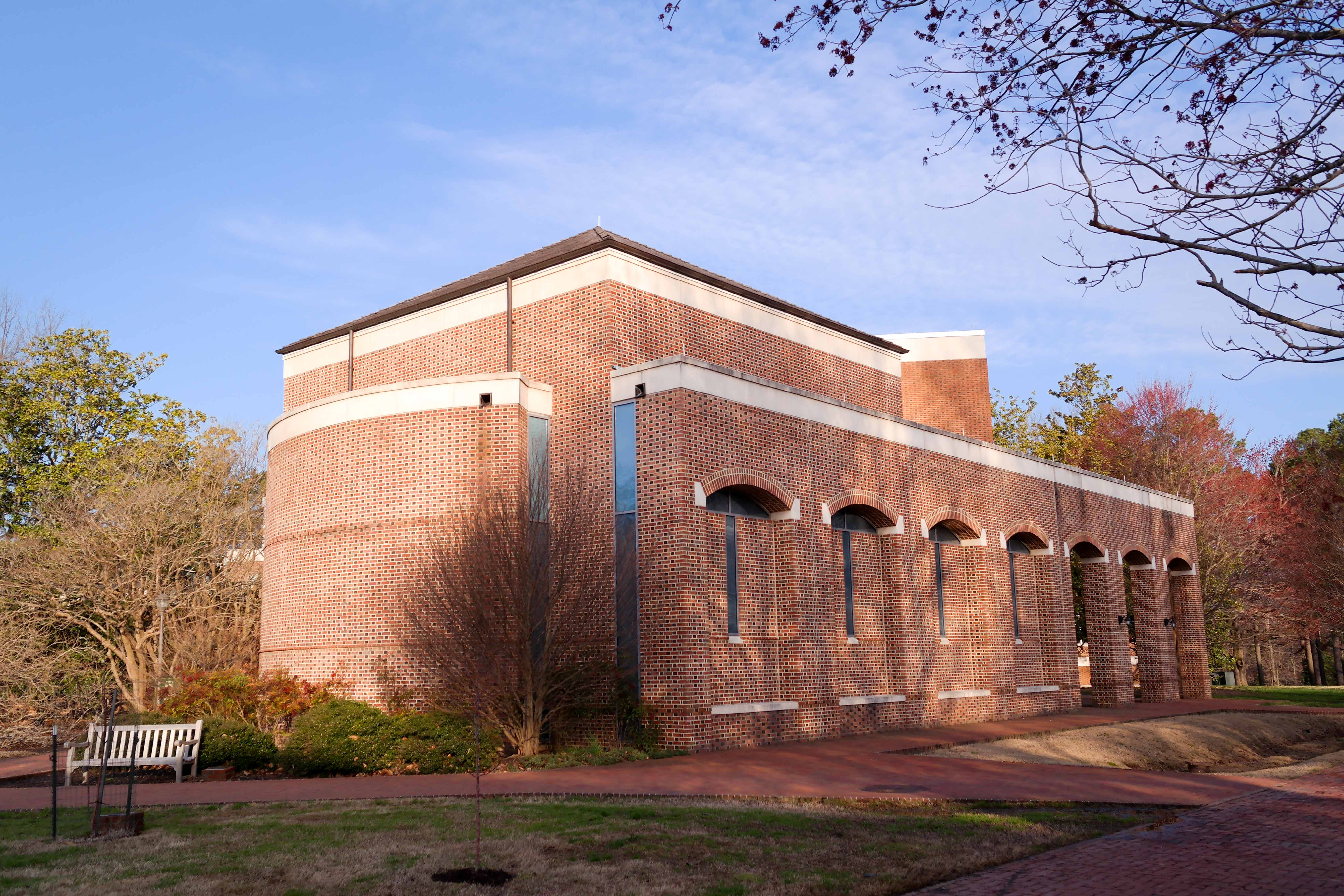 A view of the Small Physical Laboratory at the College of William and Mary in Williamsburg, Virginia